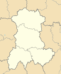 Blank administrative map of Auvergne for geo-location purpose, with regions and departements distinguished.Approximate scale : 1:3,000,000